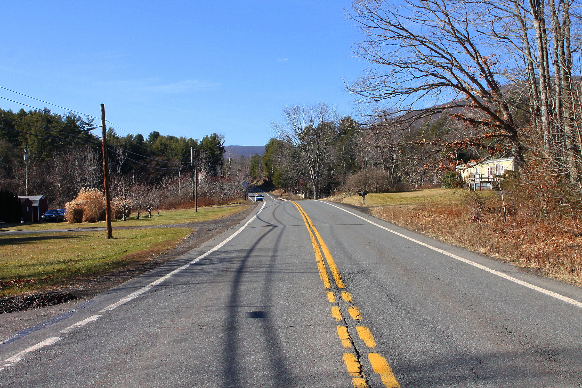 Pennsylvania Route 118 west in Fairmount Township, Luzerne County